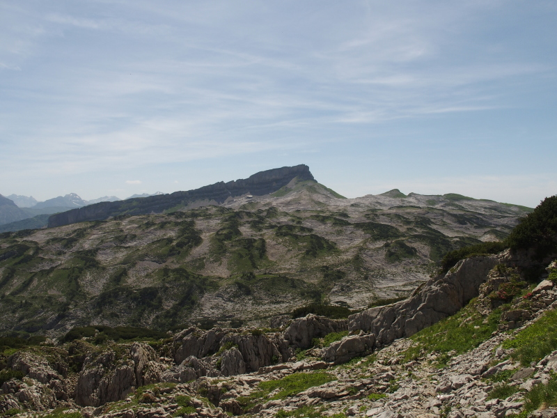 Gottesacker and Hoher Ifen. View from Gottesackerscharte.